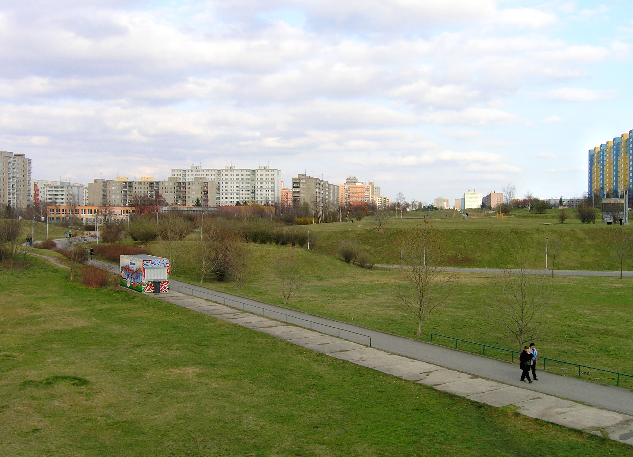 Central Park in Chodov, Prague. View from Opatov metro station